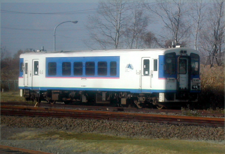 JR Hokkaido KiHa 160 series DMU car KiHa 160-1 stored at Tomakomai Station